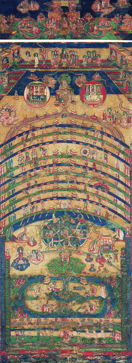 Heaven and Earth, a painting that describes Manichaean cosmology. Hanging scroll, paint and gold on silk, Yüen dynasty (1279–1368 c.e.).